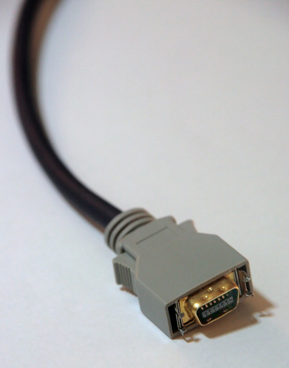 A photograph of a D4 video connector